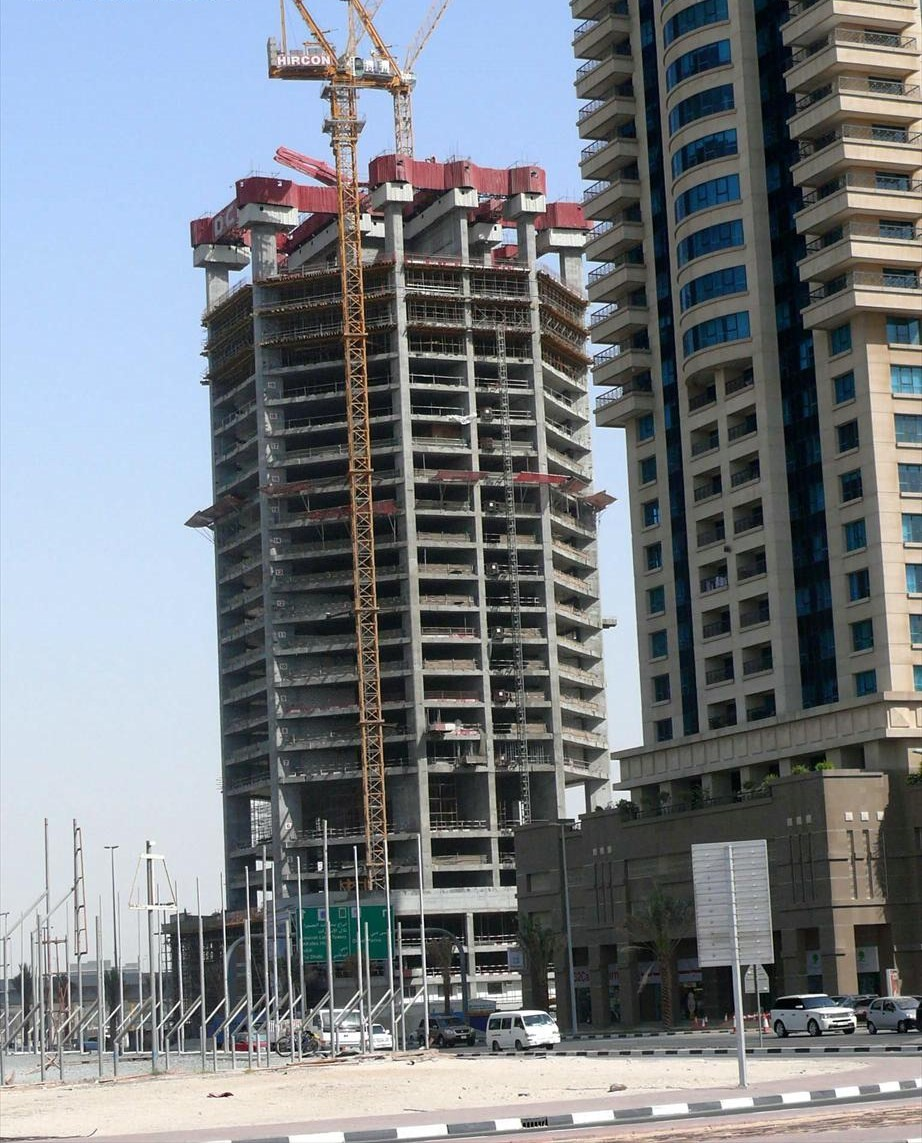 This is a photo showing the construction of 23 Marina, located in Dubai Marina in Dubai, United Arab Emirates, on 13 June 2008.